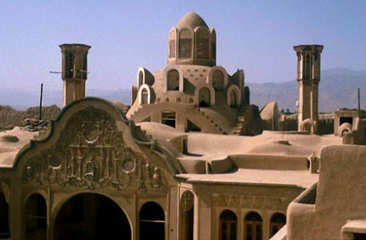 Borujerdi ha House, built 1857. Iran. Photo taken by user Zereshk.